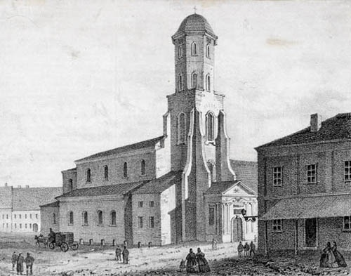 Photo of 1867 of the Gothic Mary Magdalene Church in Buda, Budapest, Hungary.